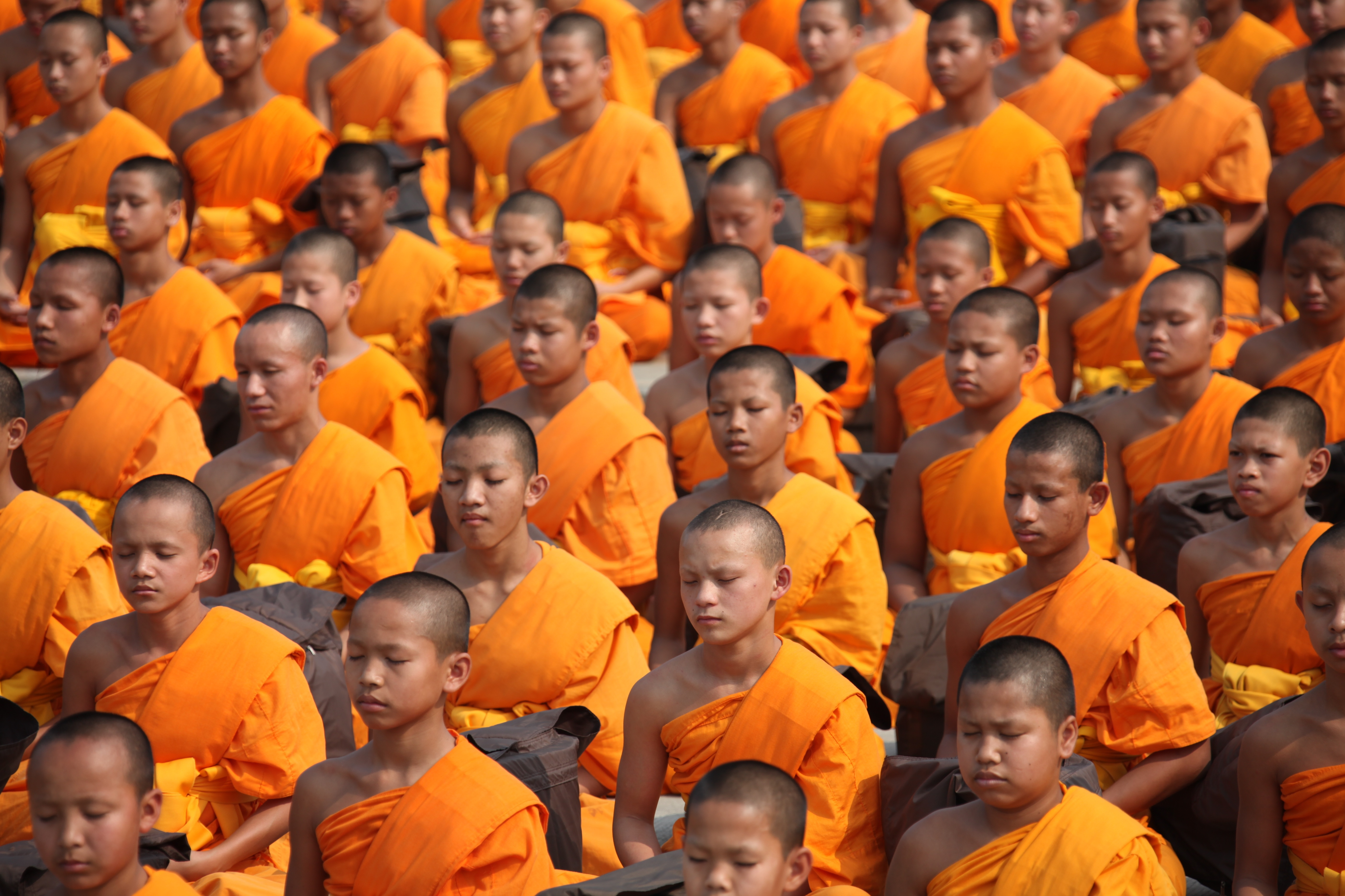 Novices meditating